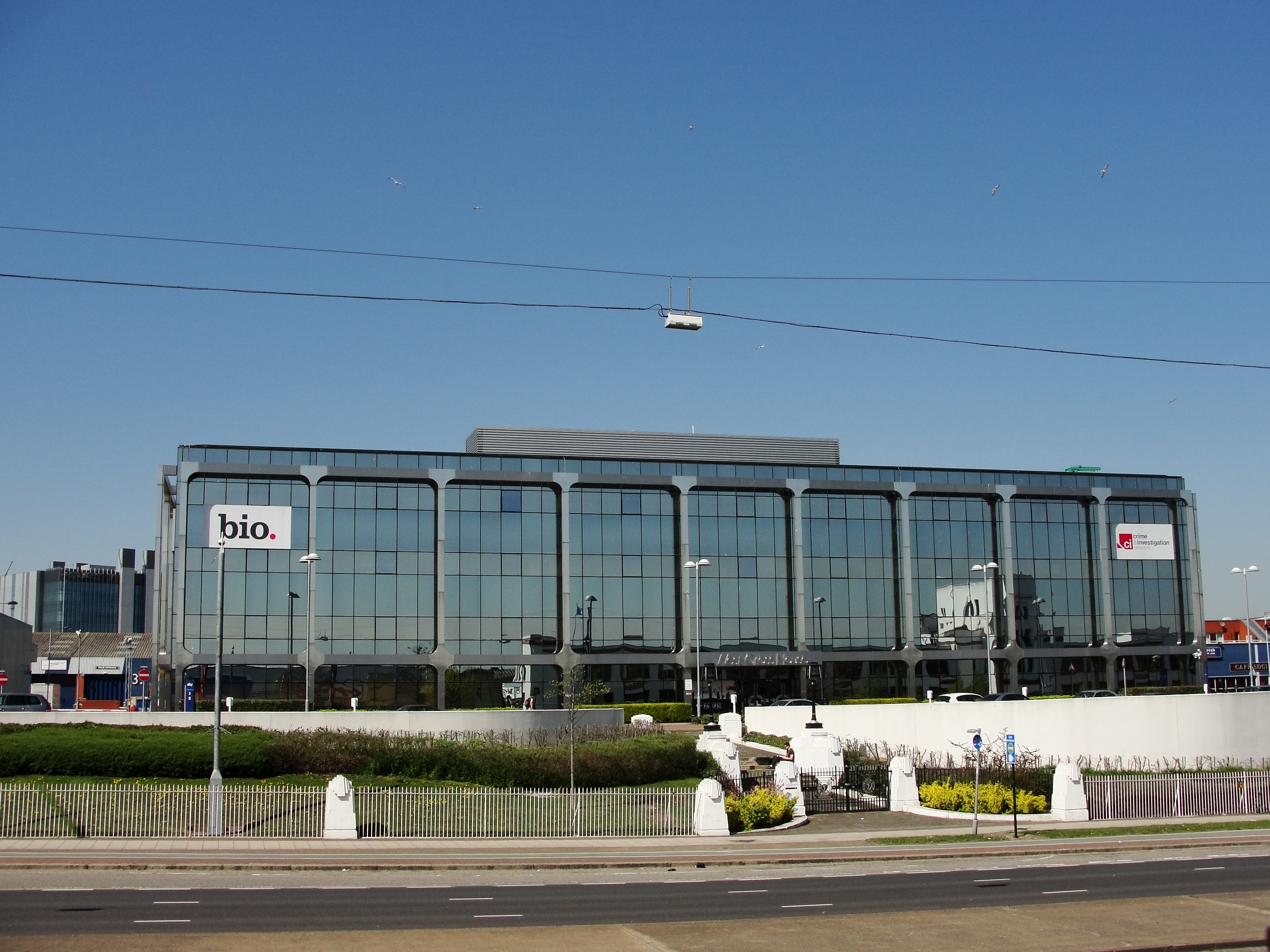 Sky Offices on the Great West Road in Brentford